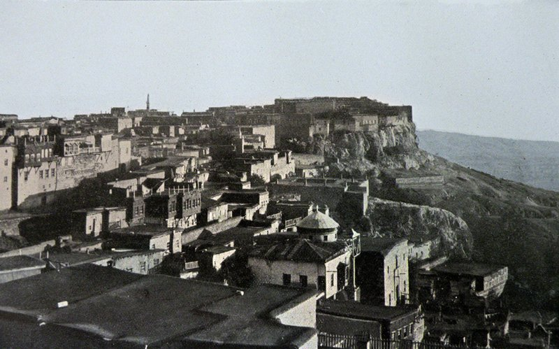 A scene from the town of Harput